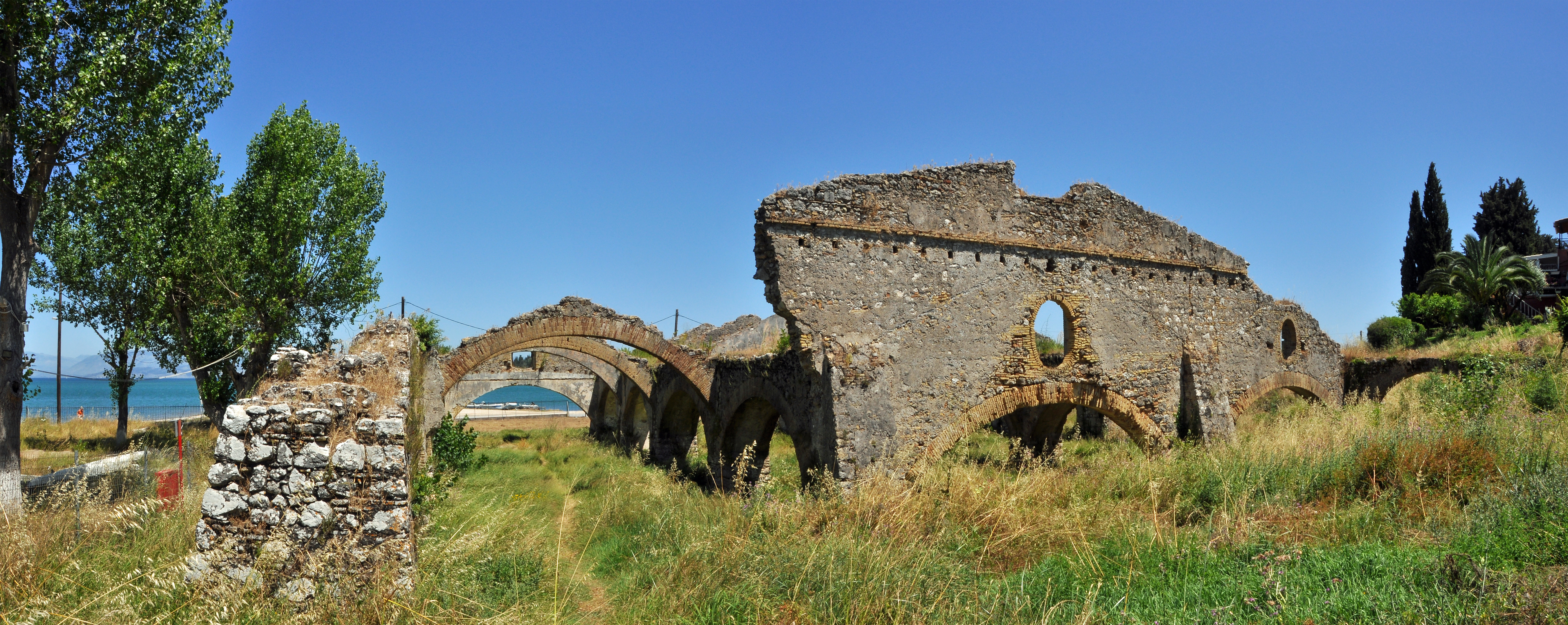 Gouvia (Corfu, Greece): ruins of the former Venetian shipyard